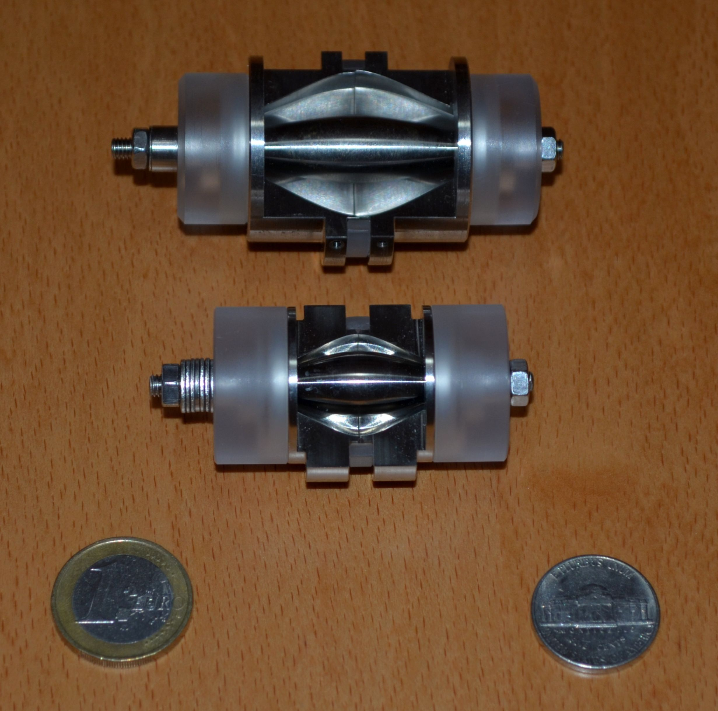 Standard (top) and high-field (centre) Orbitrap mass analyzers, shown with 1 Euro (left) and a US nickel (right) as size references. The outer (detection) electrodes are partially removed to show the central electrode within the mass analzyers.